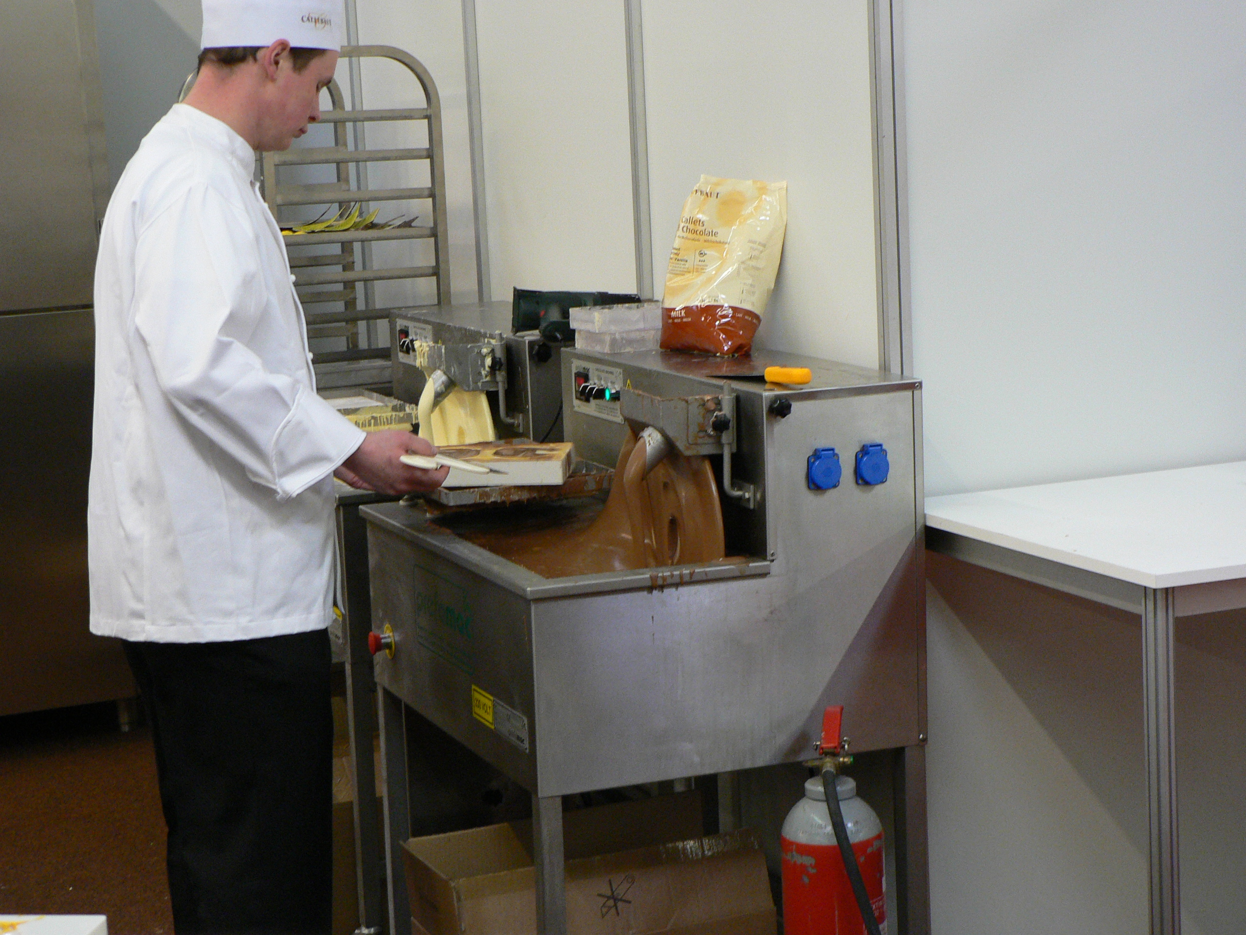 chocolatier filling the prefabricated chocolate molds